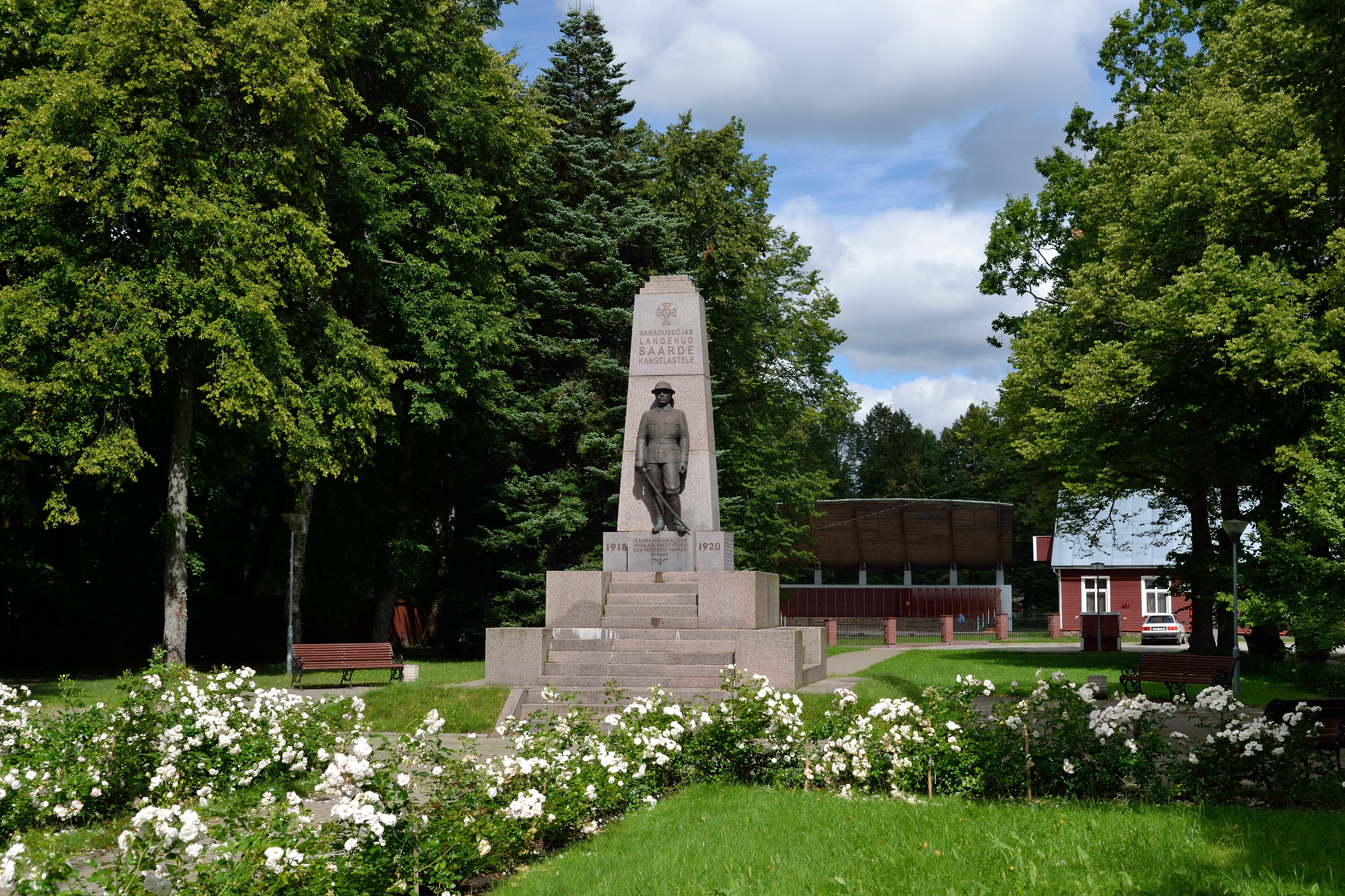 Statue of Estonian War of Independence in Kilingi-Nõmme (Estonia)